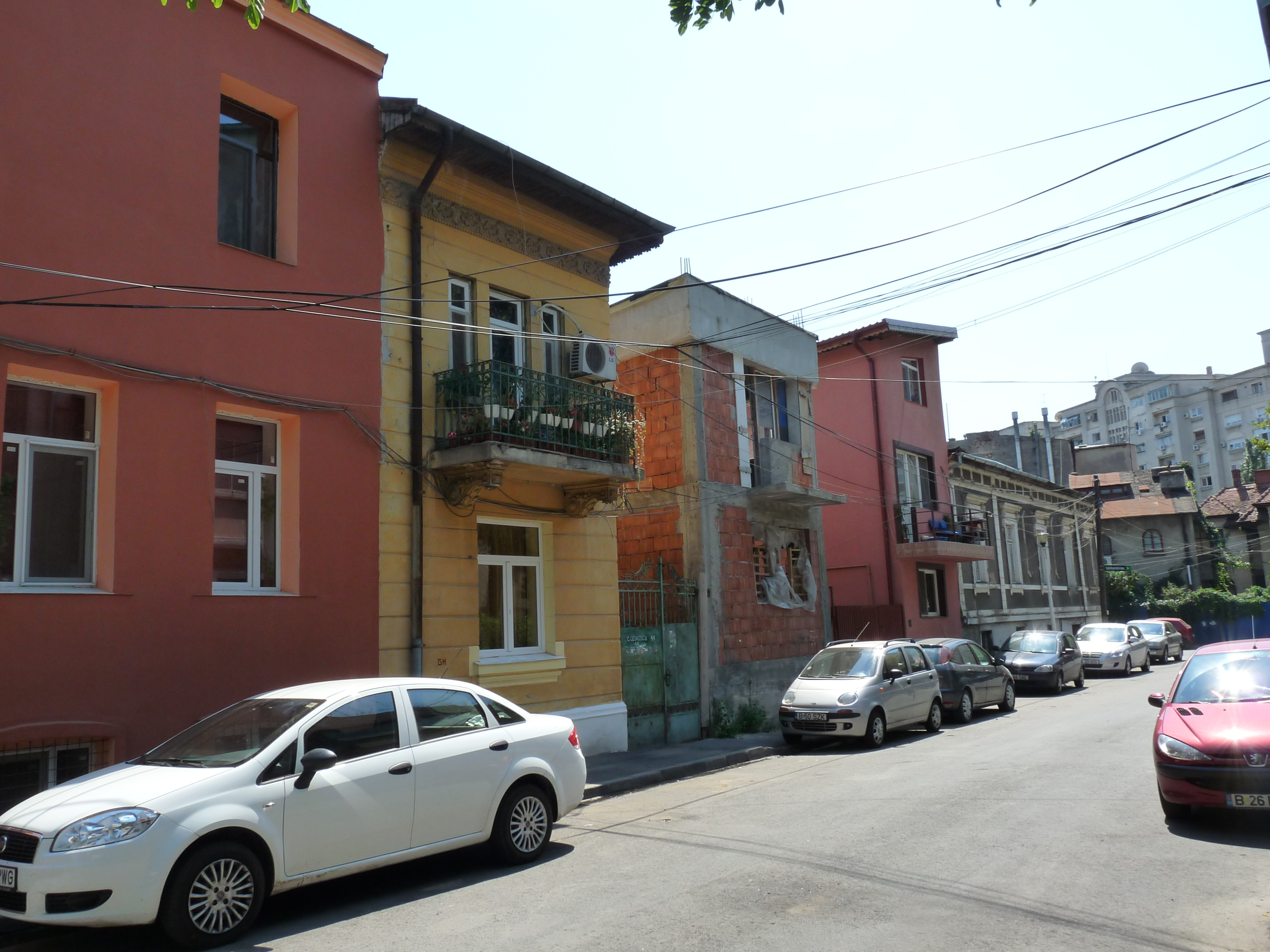 Historic building in Bucharest, Romania, on Gladiolelor street 12-12A.